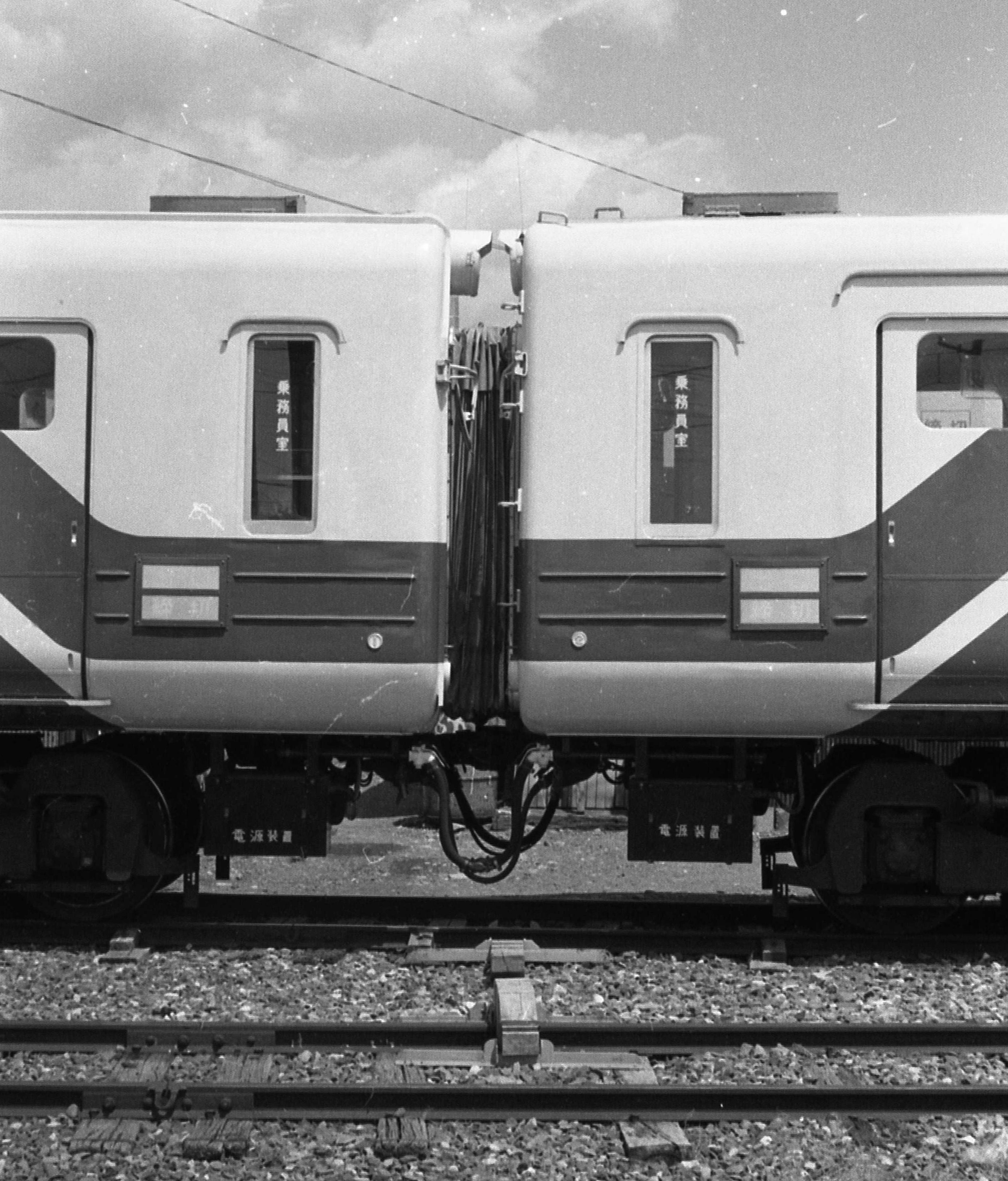 Matsuden 5007 and 5009